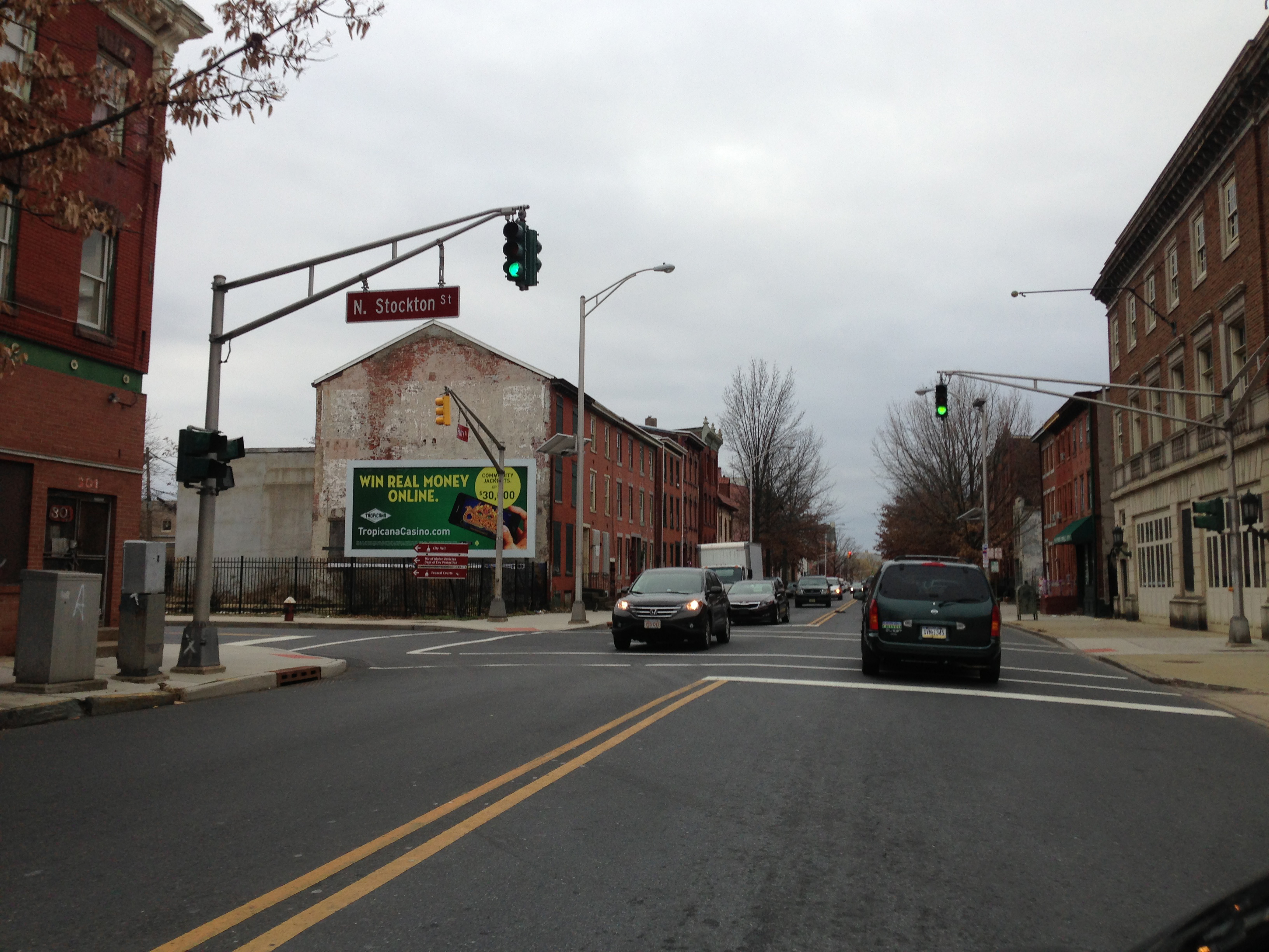 A old traffic light painted green at the intersection of Perry Street and Stockton Street in front of the Trenton Fire Headquarters in Trenton, New Jersey